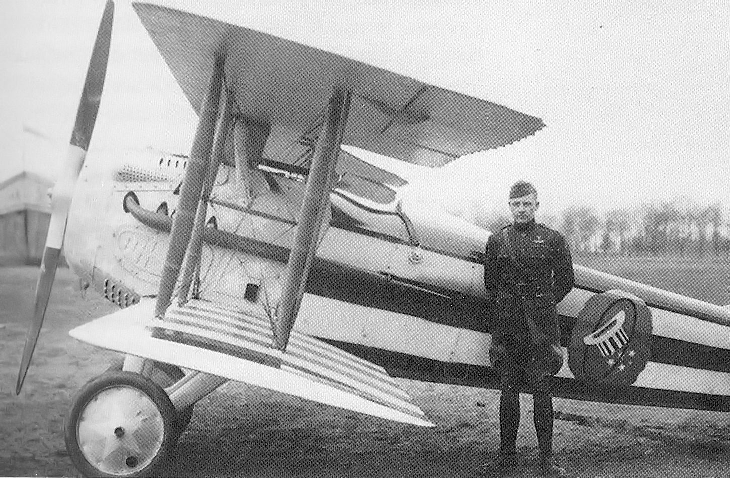 Major Reed Chambers, AEF 94th Pursuit Squadron, France, 1918 Major Chambers was formerly a member of the Tennessee National Guard aviation department in 1914.